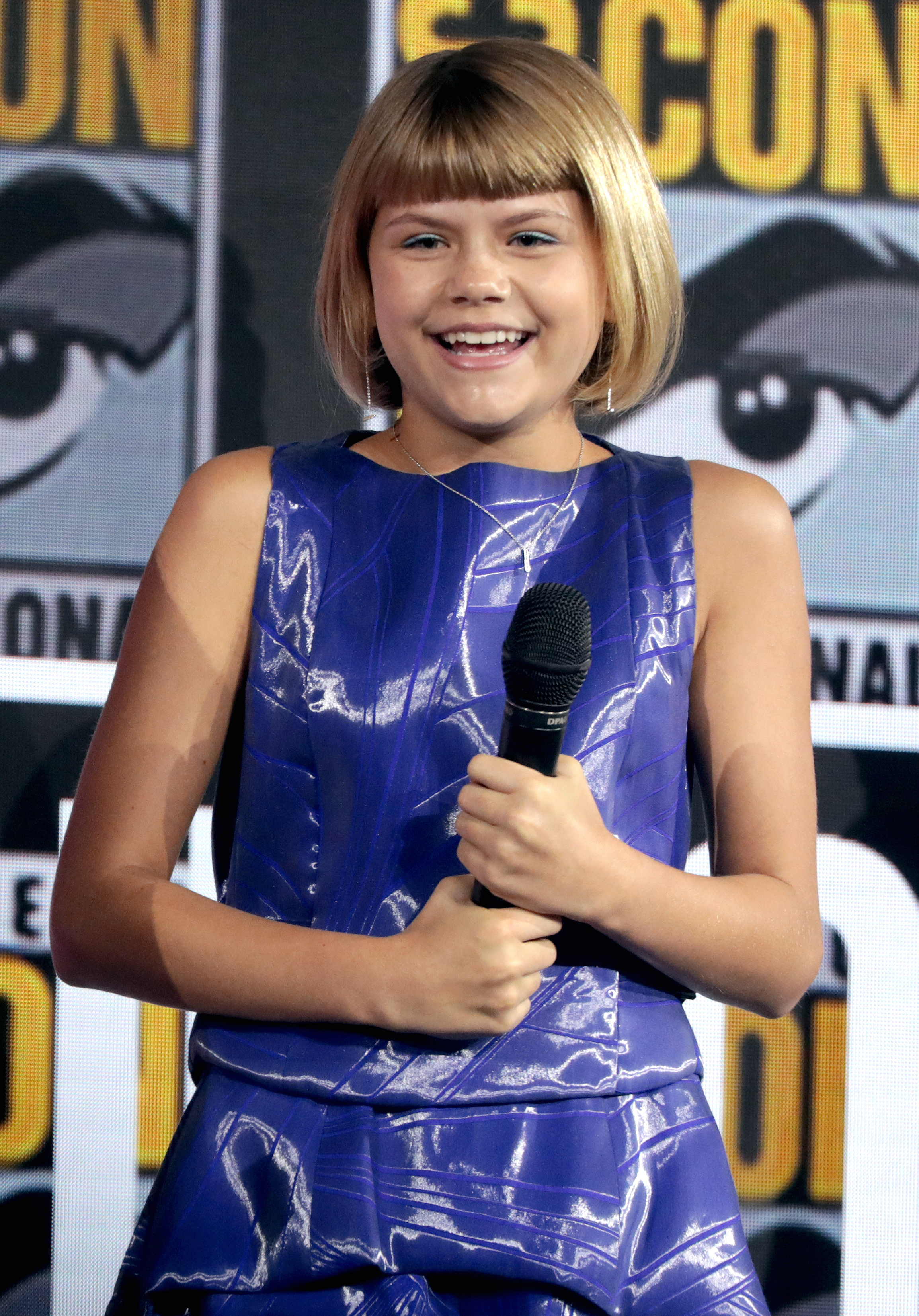 Lia McHugh speaking at the 2019 San Diego Comic-Con International in San Diego, California.